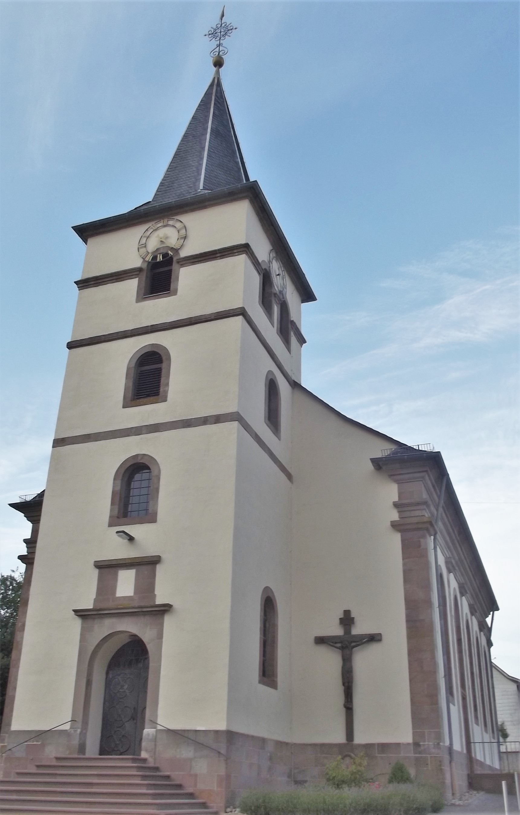 Exterior of the roman catholic church in Furschweiler, Saarland